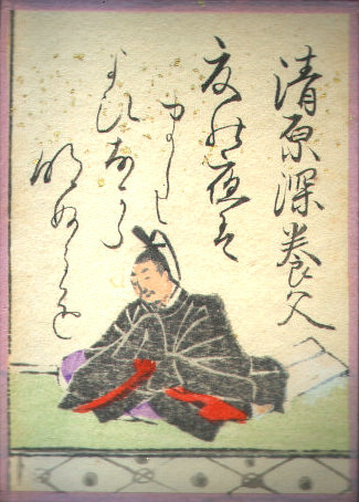 A portrait of Kiyohara no Fukayabu; illustration from an uta-garuta playing card for Hyakunin Isshu, created in the Edo period.